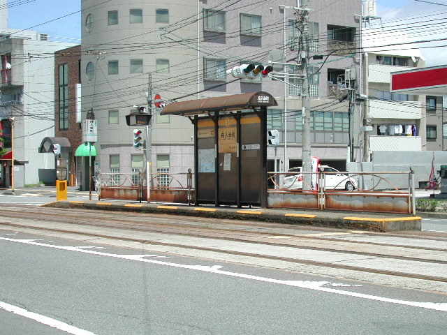 Hiroshima Electric Railway Funairi-Saiwaicho Station